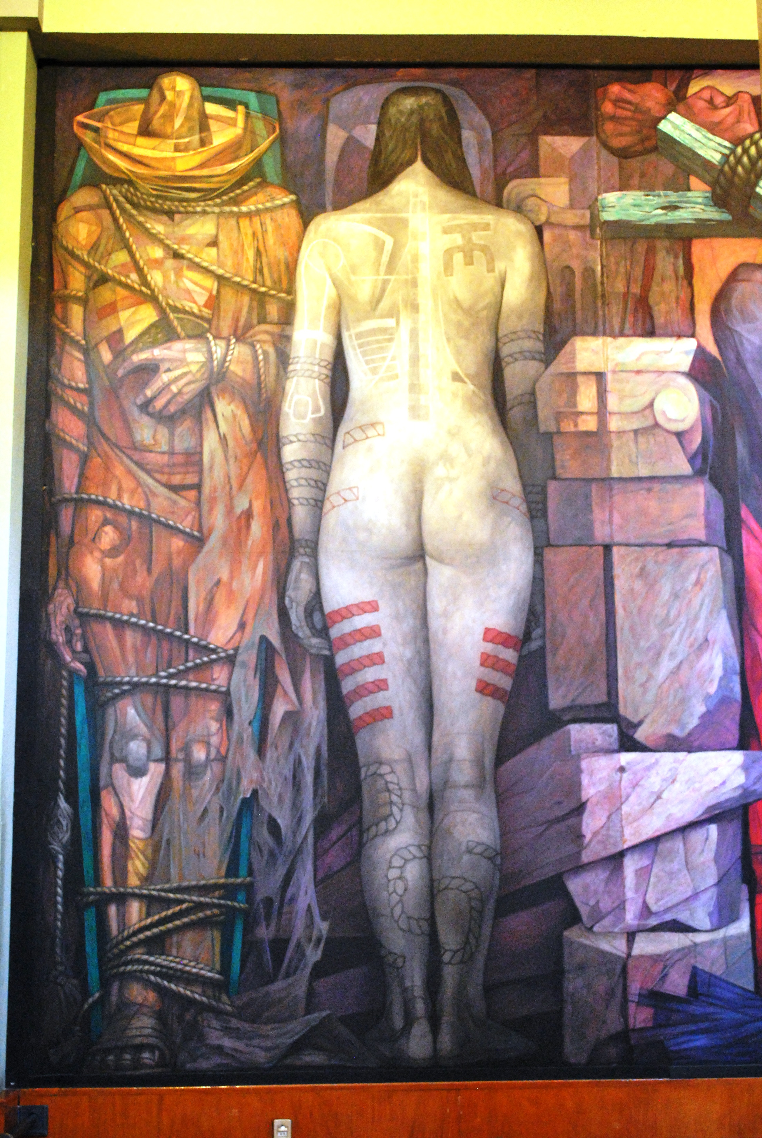 Portion of a mural by Jorge González Camarean in the Palacio de Bellas Artes in Mexico City